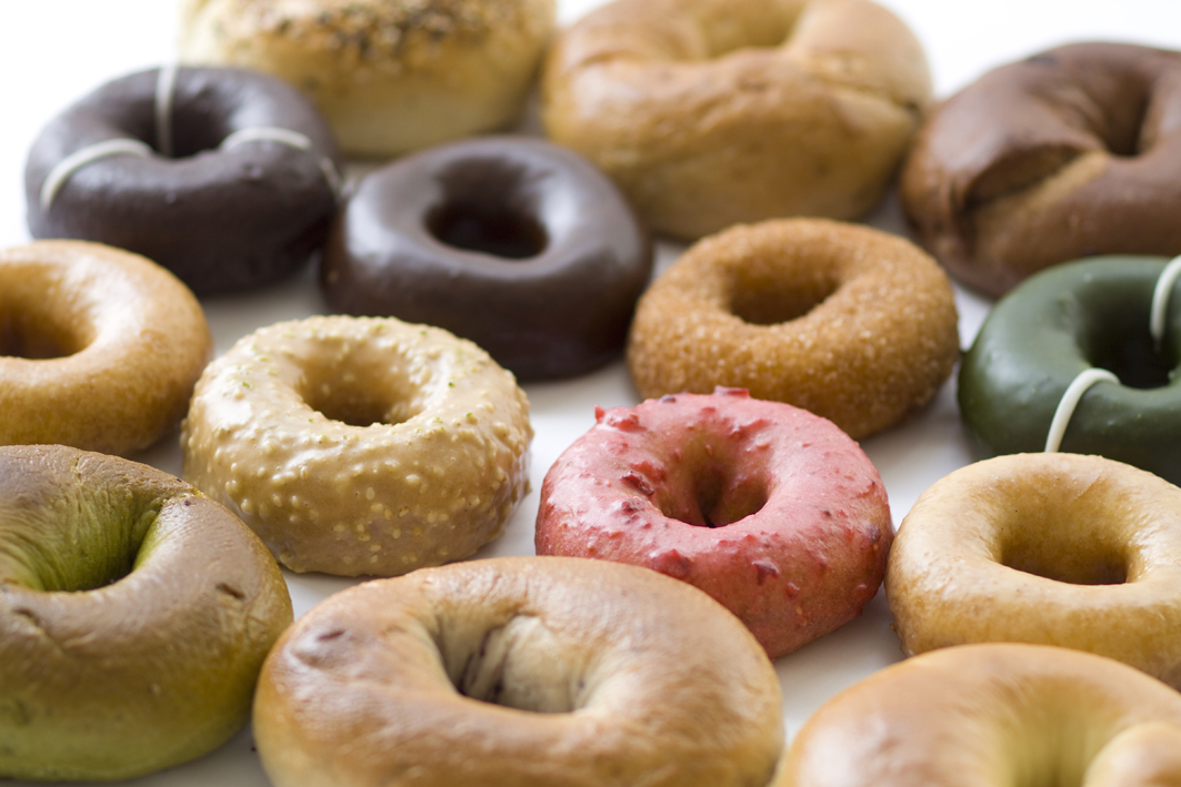 Doughnut Plant Tokyo（東京都渋谷区）